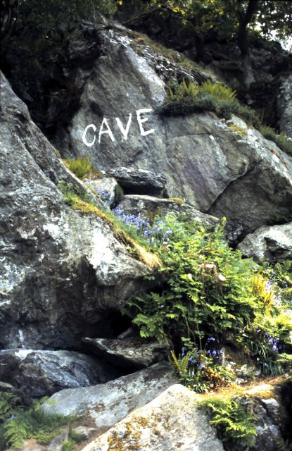 Rob Roy's Cave, eastern shore of Loch Lomond It is easy to get near to the cave one mile N of Inversnaid along the path used by the West Highland Way. However, without the graffiti would be extremely difficult to find amongst the jumble of huge boulders. Entry requires a drop of 8 feet into a large roomy chamber but one must have a rope and strong friends outside to assist in exiting, otherwise one will be condemned to share the cave with the ghosts of Rob Roy and also Robert the Bruce who both found shelter here.